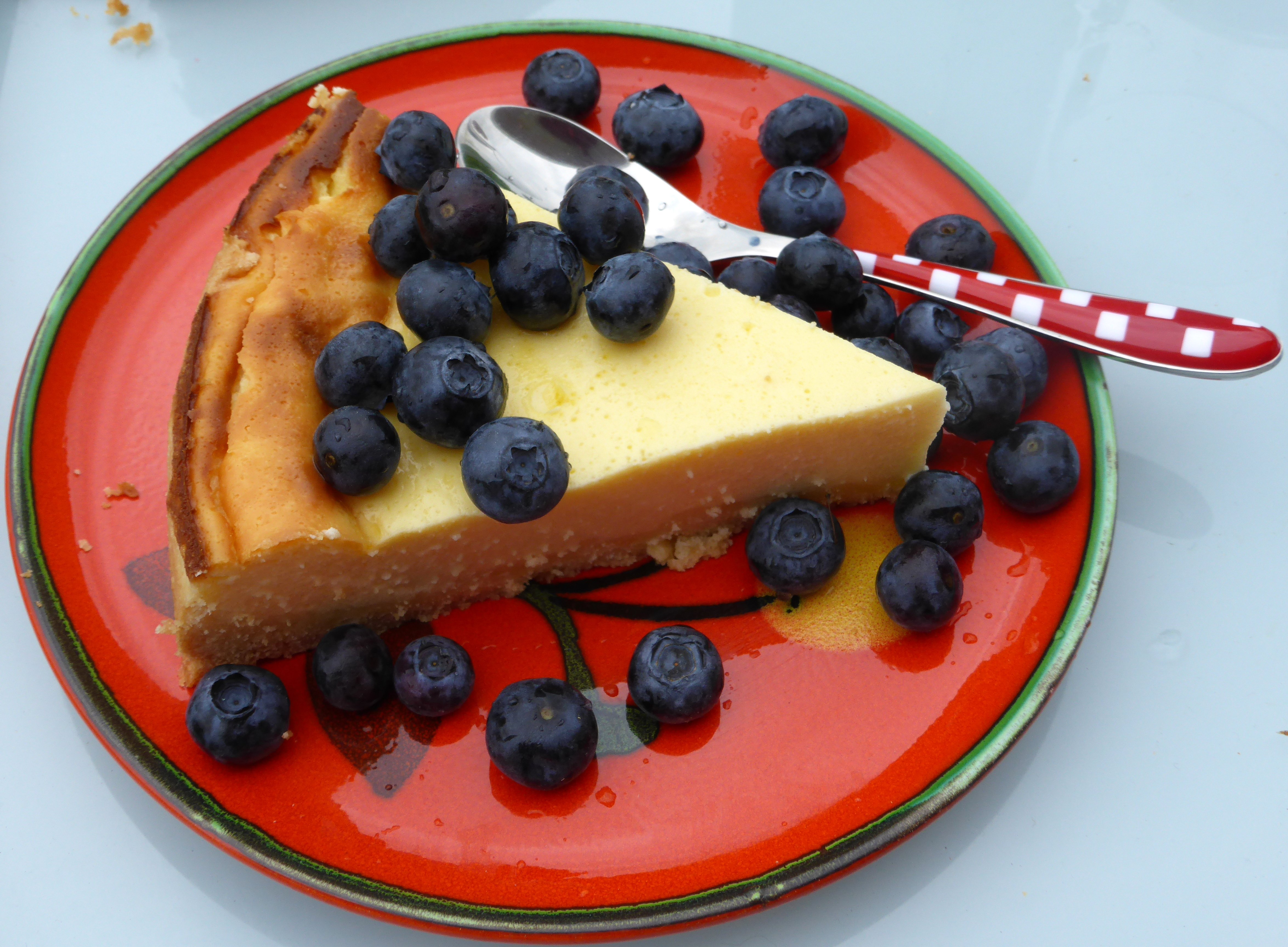 Berlin in spring